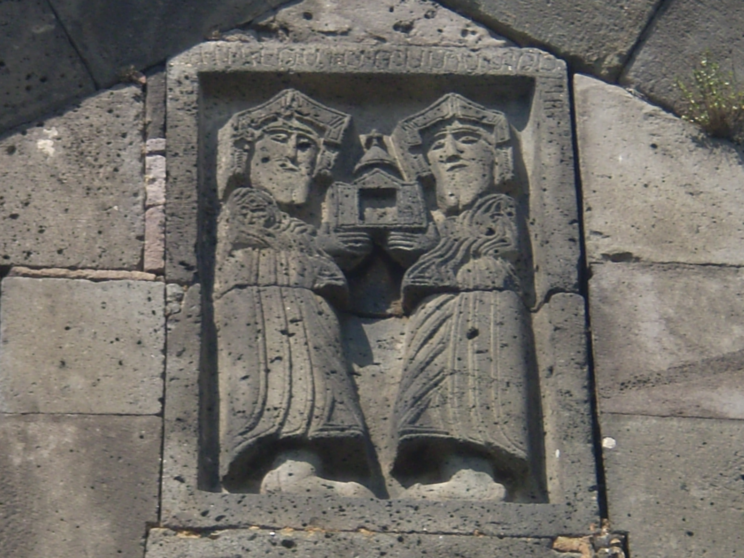 Smbat and Gurgen Bagratuni, patrons of Sanahin and Haghpat. Original from Sanahin.